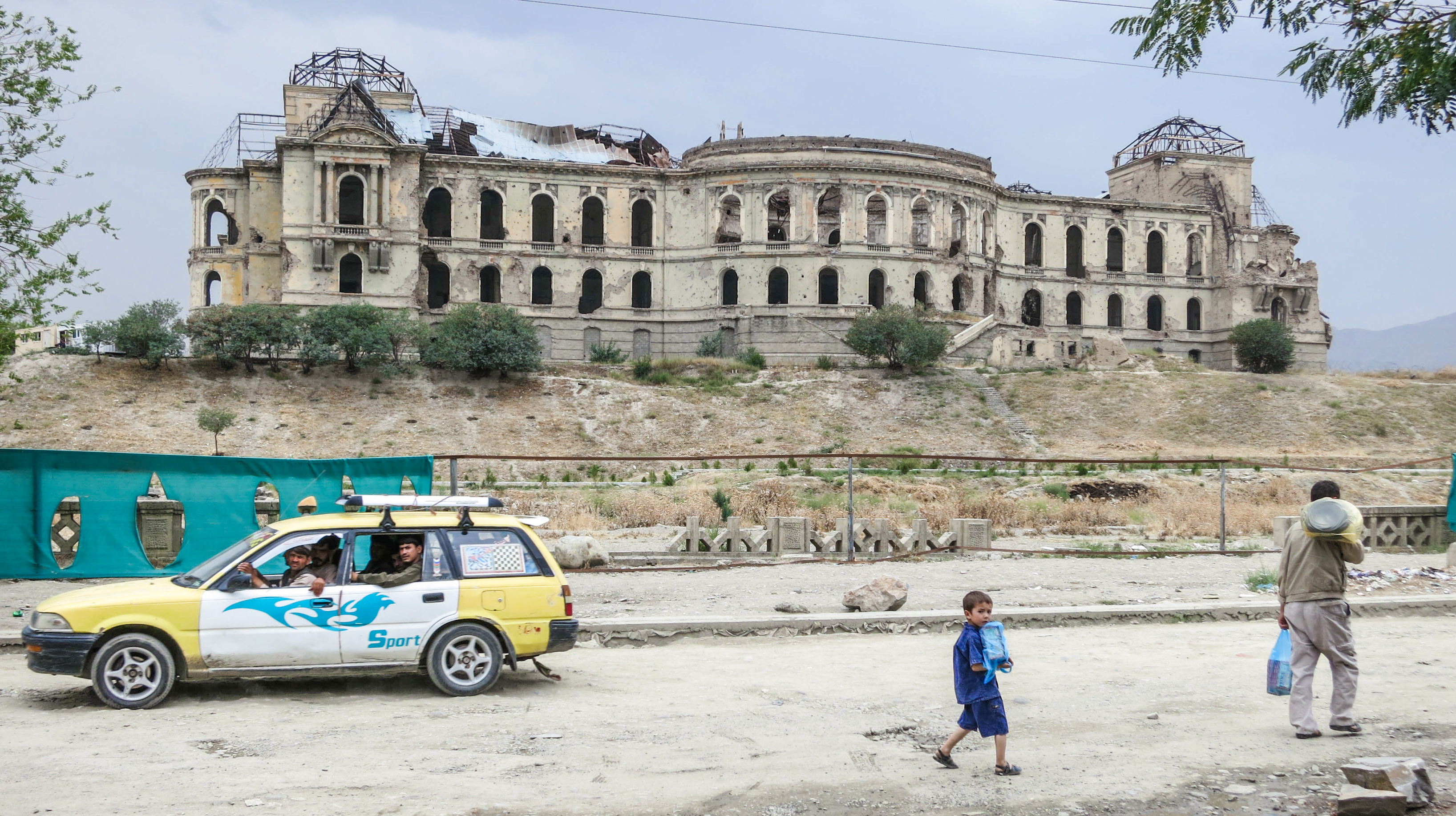 Darul Aman Palace in Kabul, Afghanistan